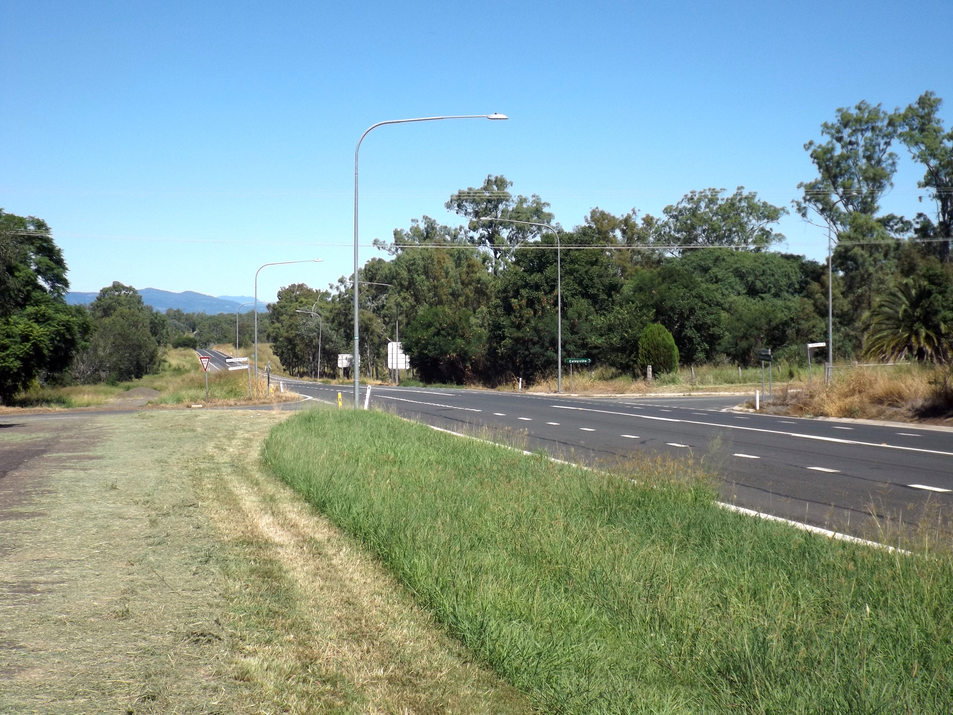 The Cunningham Highway (A15) at the intersection with Coleyville Road, Mutdapilly, Scenic Rim Region, Queensland, Australia.